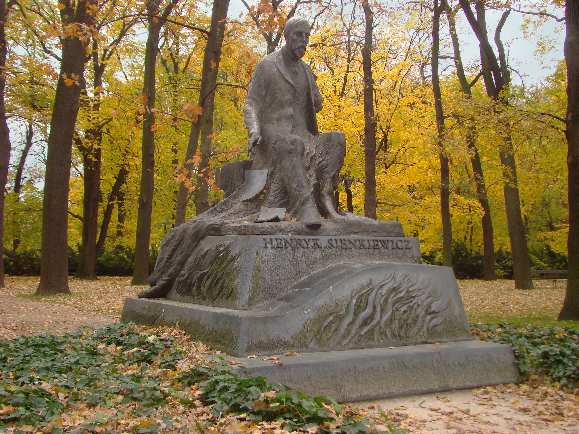 Henryk Sienkiewicz monument